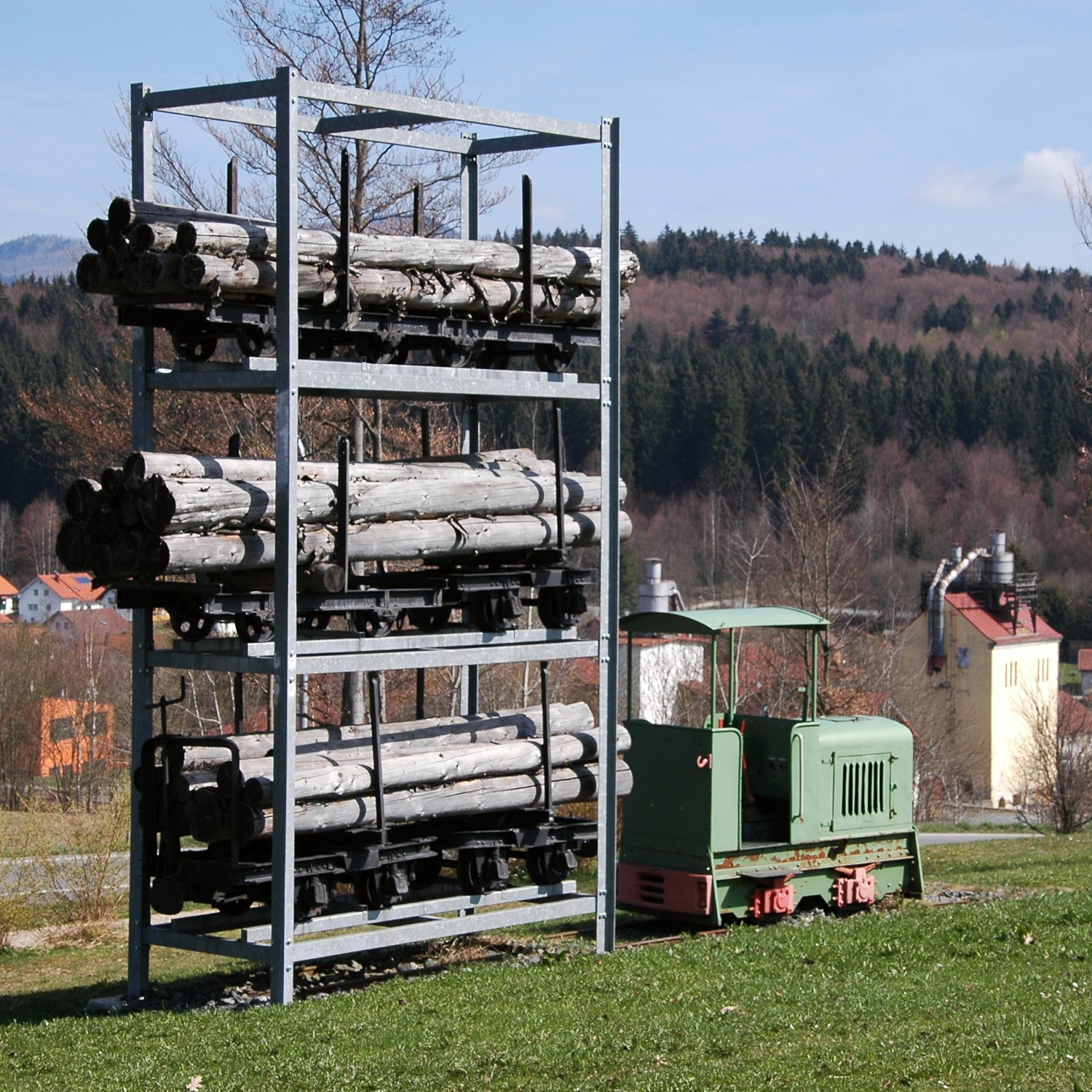 Lumber railway monument at Spiegelau, Germany. The narrow gauge diesel locomotive (Gmeiner & Co made at Mosbach/Baden) however never operated at the local lumber railway.